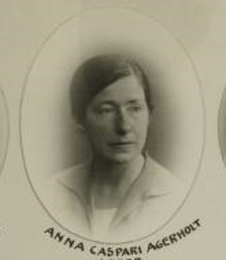 Norwegian feminist, writer and teacher Anna Caspari Agerholt.